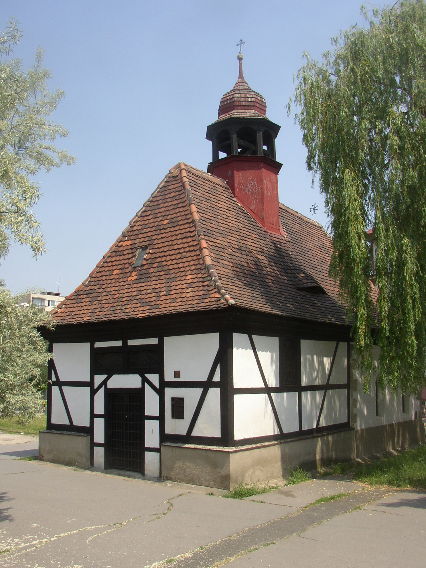 St Wenceslas church in the Lower suburb of Žatec, Czech Republic.